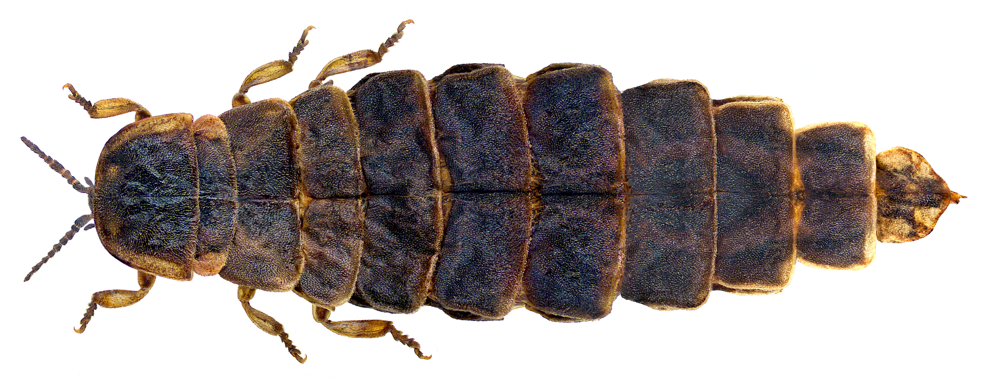 Family: Lampyridae Size: 20 mm (15 to 20 mm) Distribution: Europe Ecology: snail-eating larvae, adult with light organs on abdomen Location: England, Blakenham leg.det. D.Nash, 8.V.1977 Photo: U.Schmidt, 2016